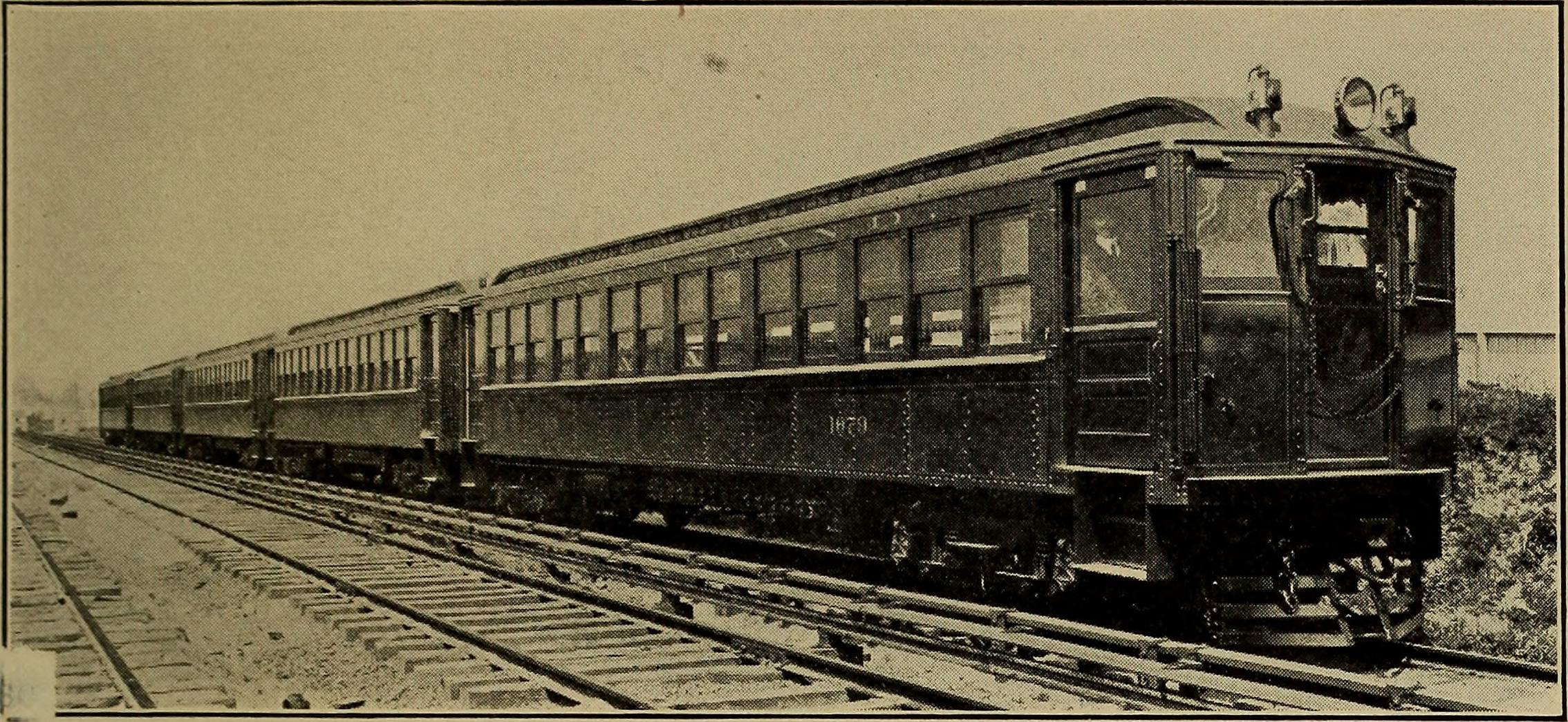 Title: Electric traction for railway trains; a book for students, electrical and mechanical engineers, superintendents of motive power and others .. Year: 1911 (1910s) Authors: Burch, Edward P. (Edward Parris), 1870-1945 Subjects: Railroads Publisher: New York (etc.) McGraw-Hill Book Company Text Appearing Before Image: for its New York-Lo:Island, suburban service; and in 1911 to Newark, New Jersey. Tmotor-car train requires greater energy than the locomotive becauof the continuity of service, the higher acceleration, and the freque-iustops. Motor-car train equipment already purchased consists of about 225 steer motorcars, for passenger service. Pennsylvania standard trucks are used with side-extendedbolster springs and 8.5-foot wheel bases. Power equipment per motor car consists oftwo Westinghouse 215-h.p., direct-current motors. Forced draft is used to cool andto keep out the dust and grit. The entire axle is enclosed to keep the dust out ofbearings. The motor equipment was described under Ventilation of Motors. SeeFigure 42, page 184. Each car is a motor car and weighs 53 tons. MOTOR-CAR TRAINS 251 Long Island Railroad, a subsidiary company, operates 138 steel 38- to41-ton passenger motor cars, with two 200-h.p. motors per car, forsuburban service west of Brooklyn to distant points on Long Island. Text Appearing After Image: h Fig. 70.—Long Island Railroad Motor-car Train. Steel Coaches - New York, New Haven & Hartford Railroad purchased, in 1909, )_ notor cars and 6 trail coaches for its local service between New York J Gy and Stamford, Connecticut, 34 miles. The motor cars are designed pull 2 trail cars. Steel cars, built by the Standard Steel Car Company